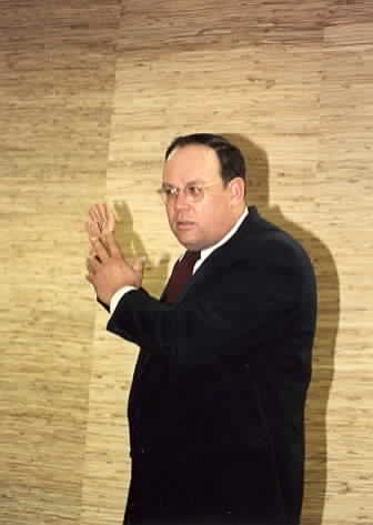 Marshall Fritz giving speech